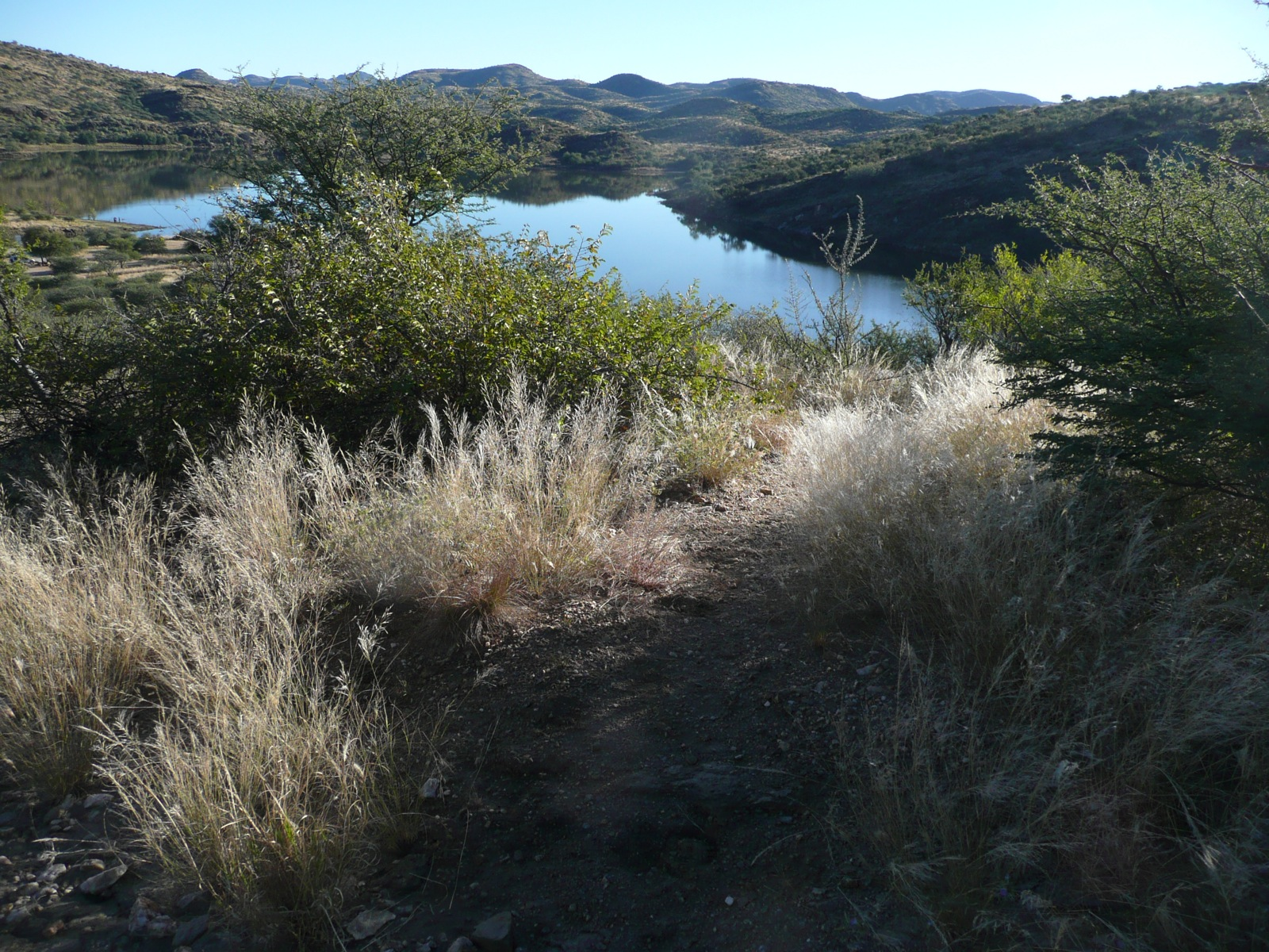 Avis dam east of Windhoek, Namibia